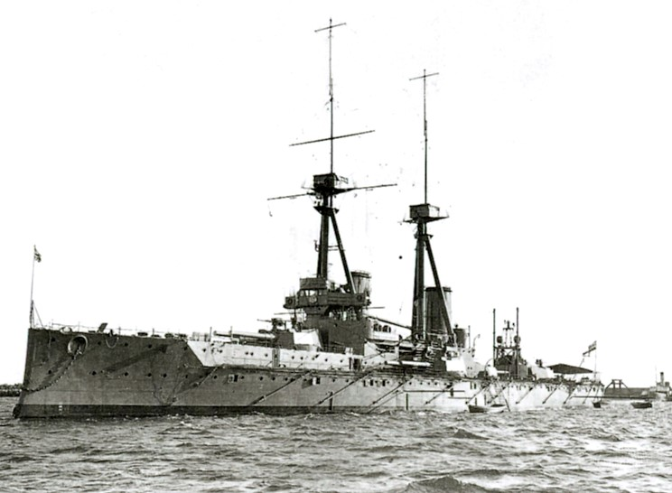 British battleship HMS Bellerophon (1907)